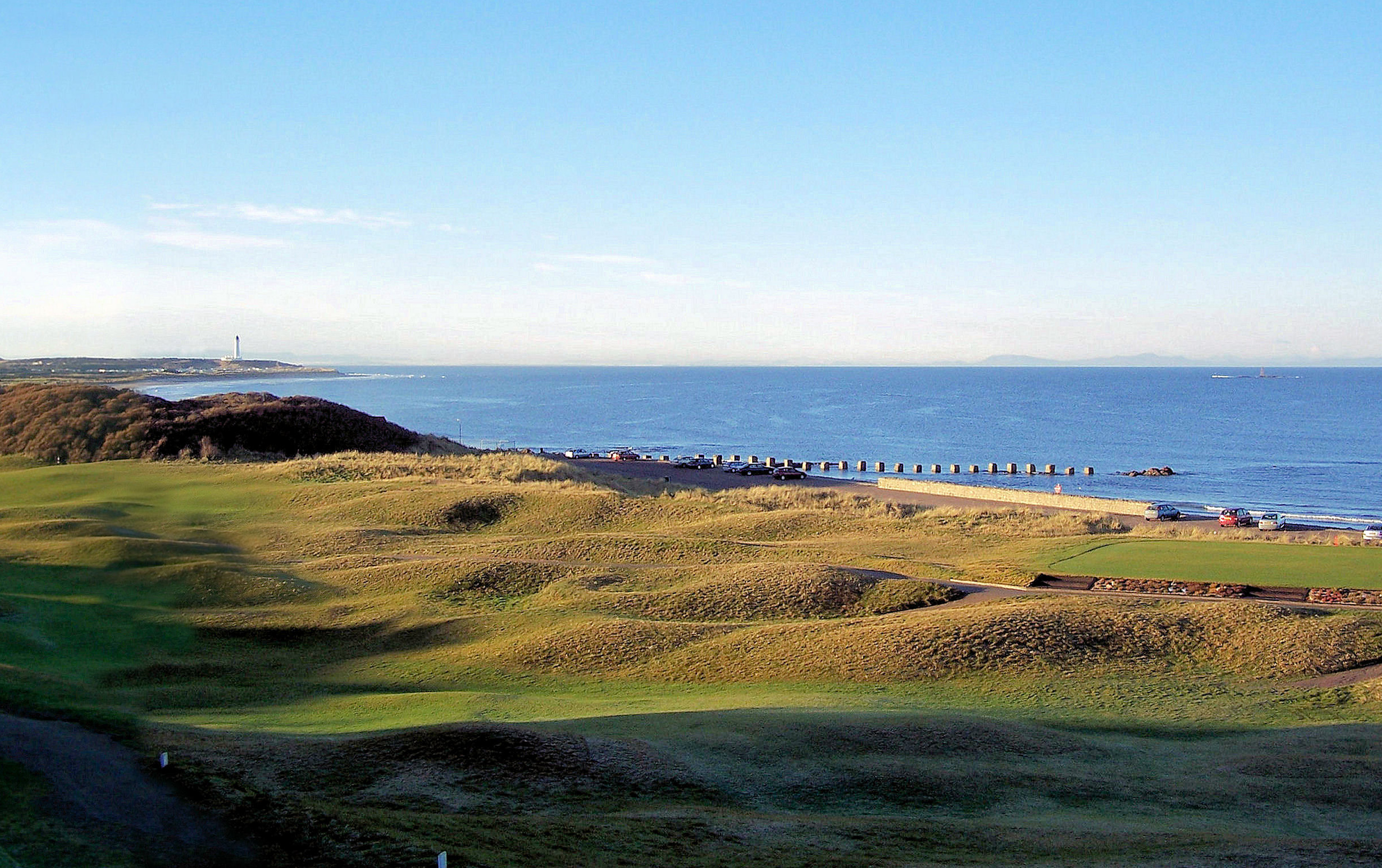 Moray Golf Club, Lossiemouth, 18th Fairway Old Course